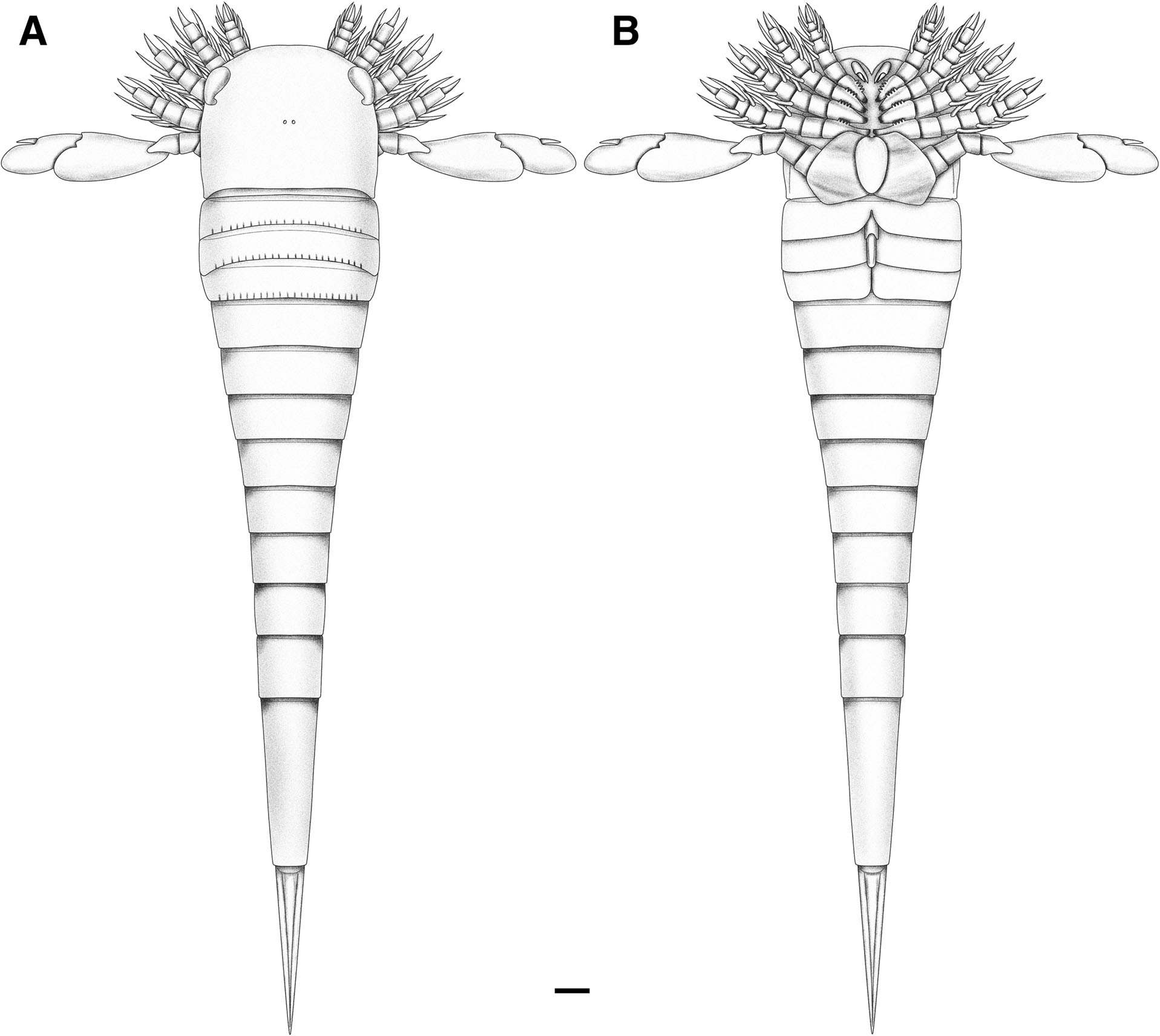 Hoplitaspis hiawathai, reconstruction. a Dorsal view. b Ventral view. The form of the first and second opercula are hypothetical and reconstructed based on comparison with Octoberaspis. Scale bar = 10 mm